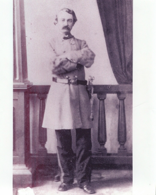 Picture of Major General William Henry Chase Whiting